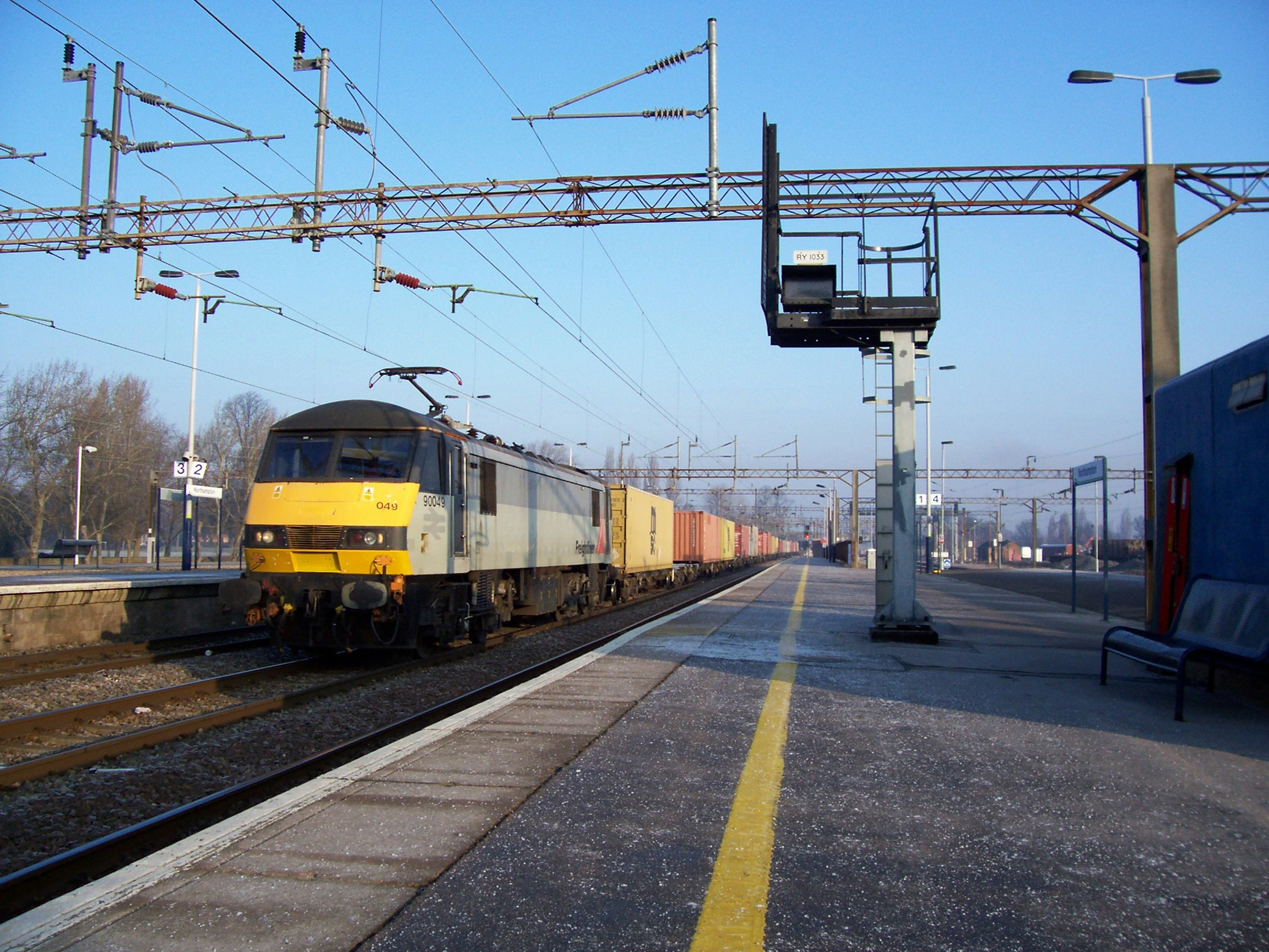 Containers being transported in the UK by rail a Class 90 provides the power.